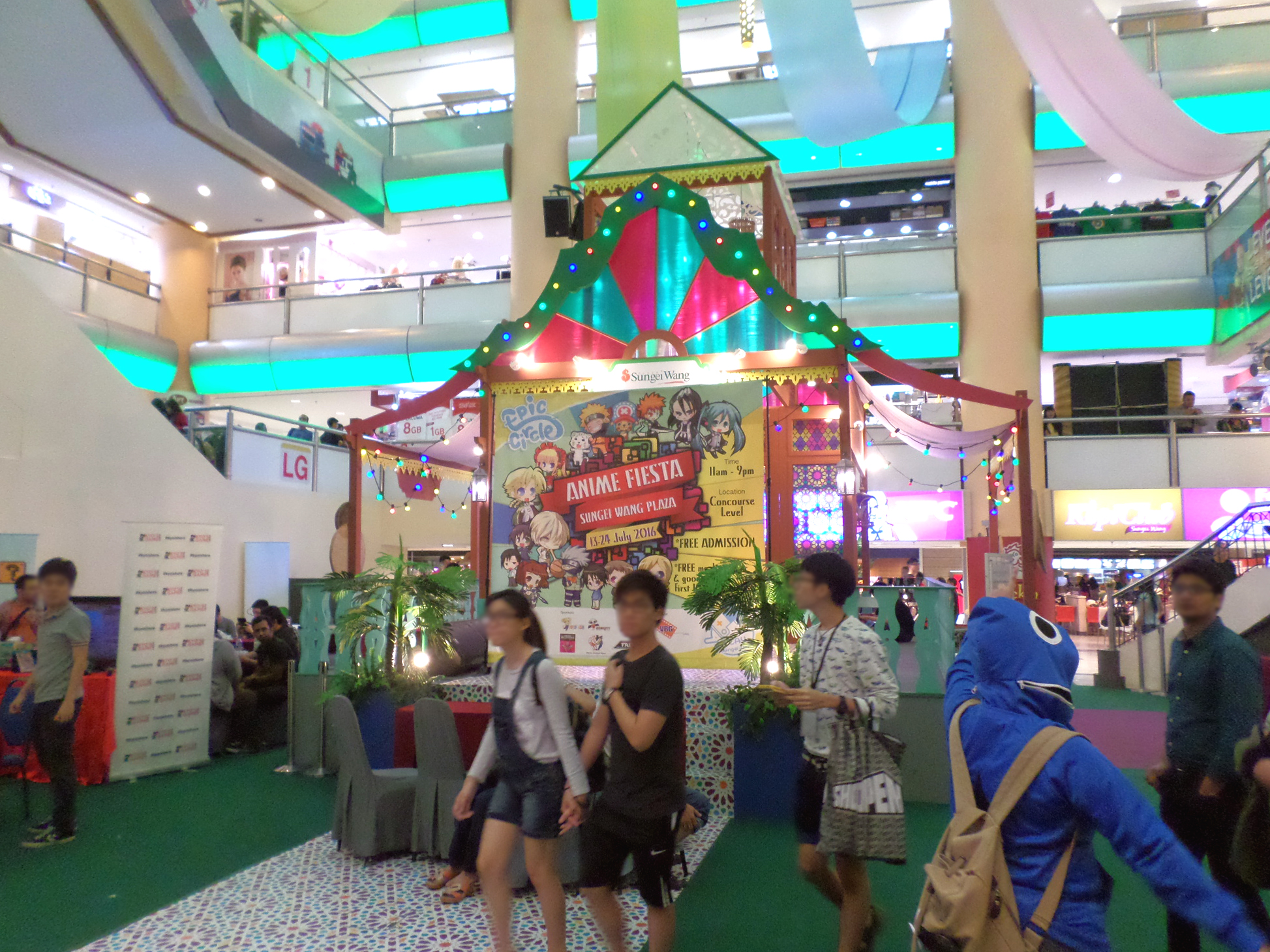 Anime Fiesta 2016 @ Sungei Wang Plaza, Bukit Bintang, Kuala Lumpur, Malaysia